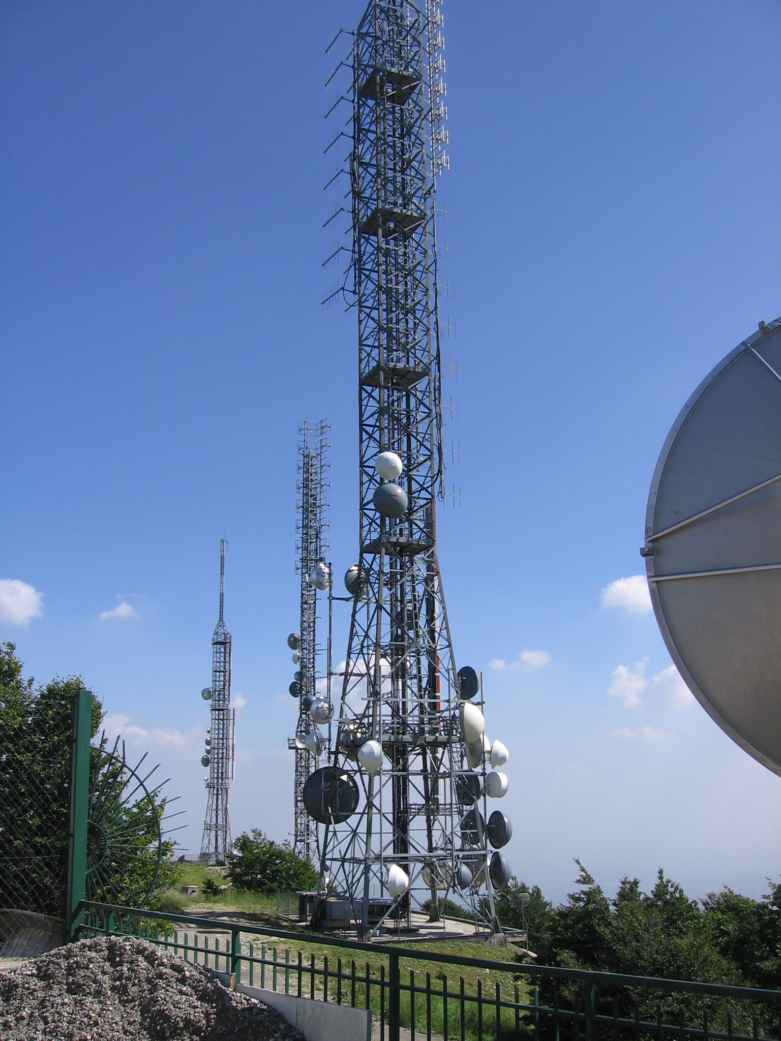 TV towers in Valcava